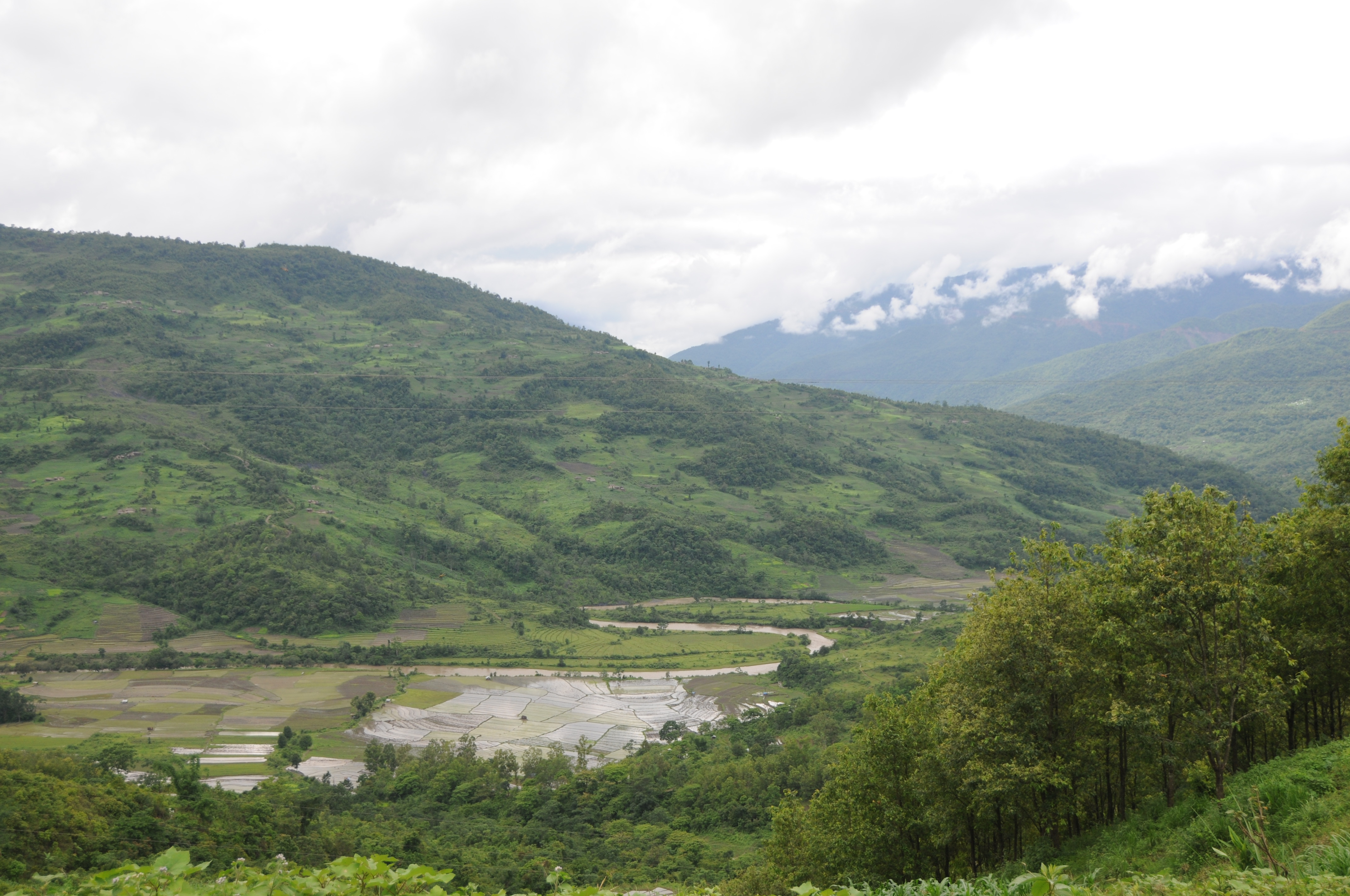 Geography nature scenery Nagaland India